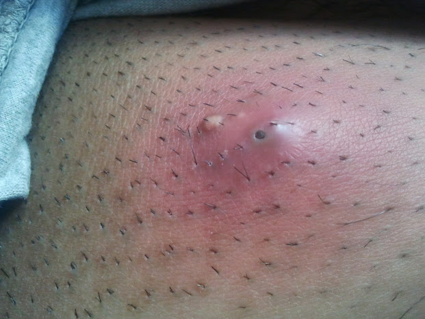 Five day old Abscess. Notice the black dot indicating infection of the follicle.